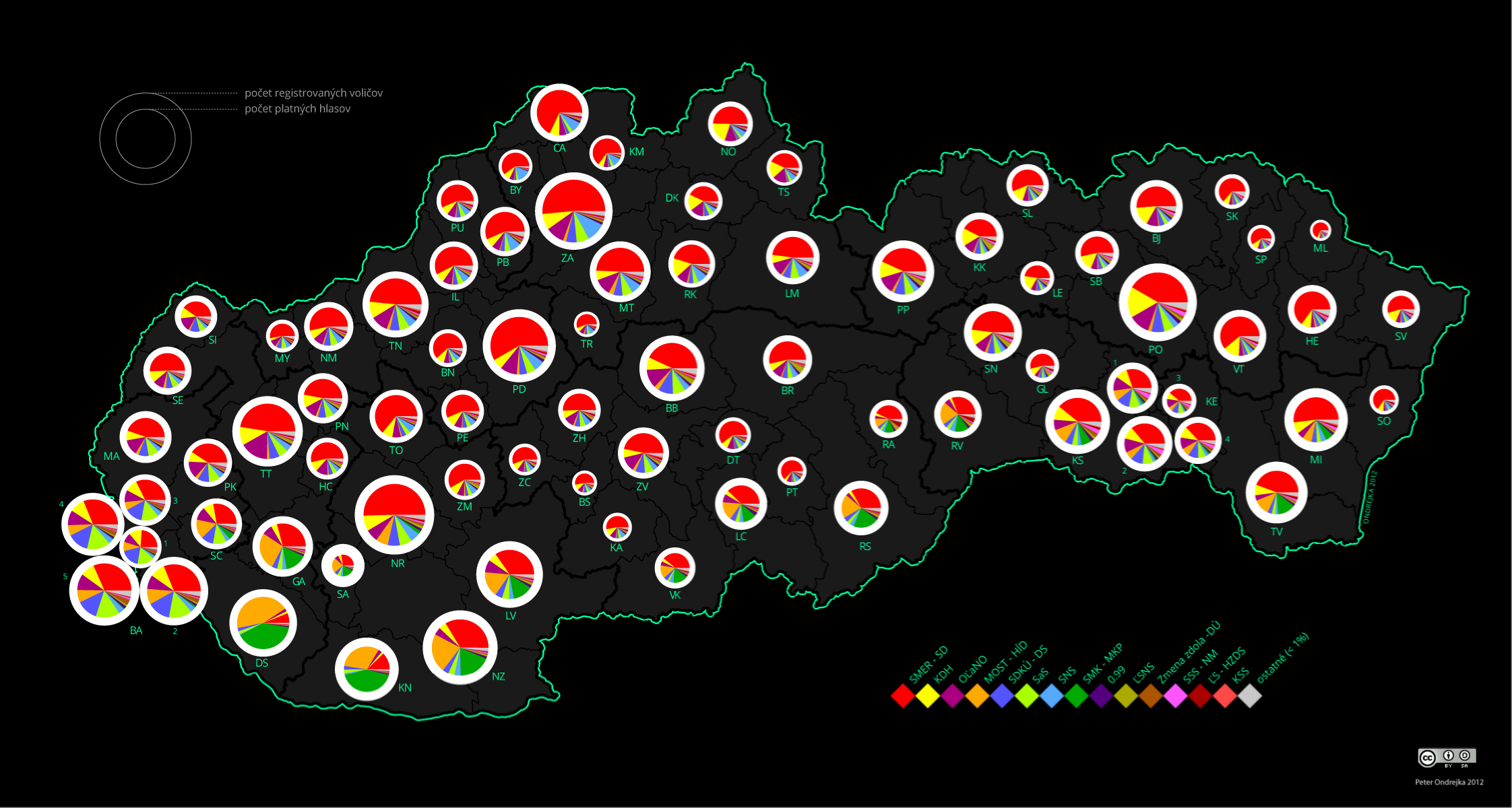 Parliamentary elections 2012 in Slovakia. Map of results in districts.